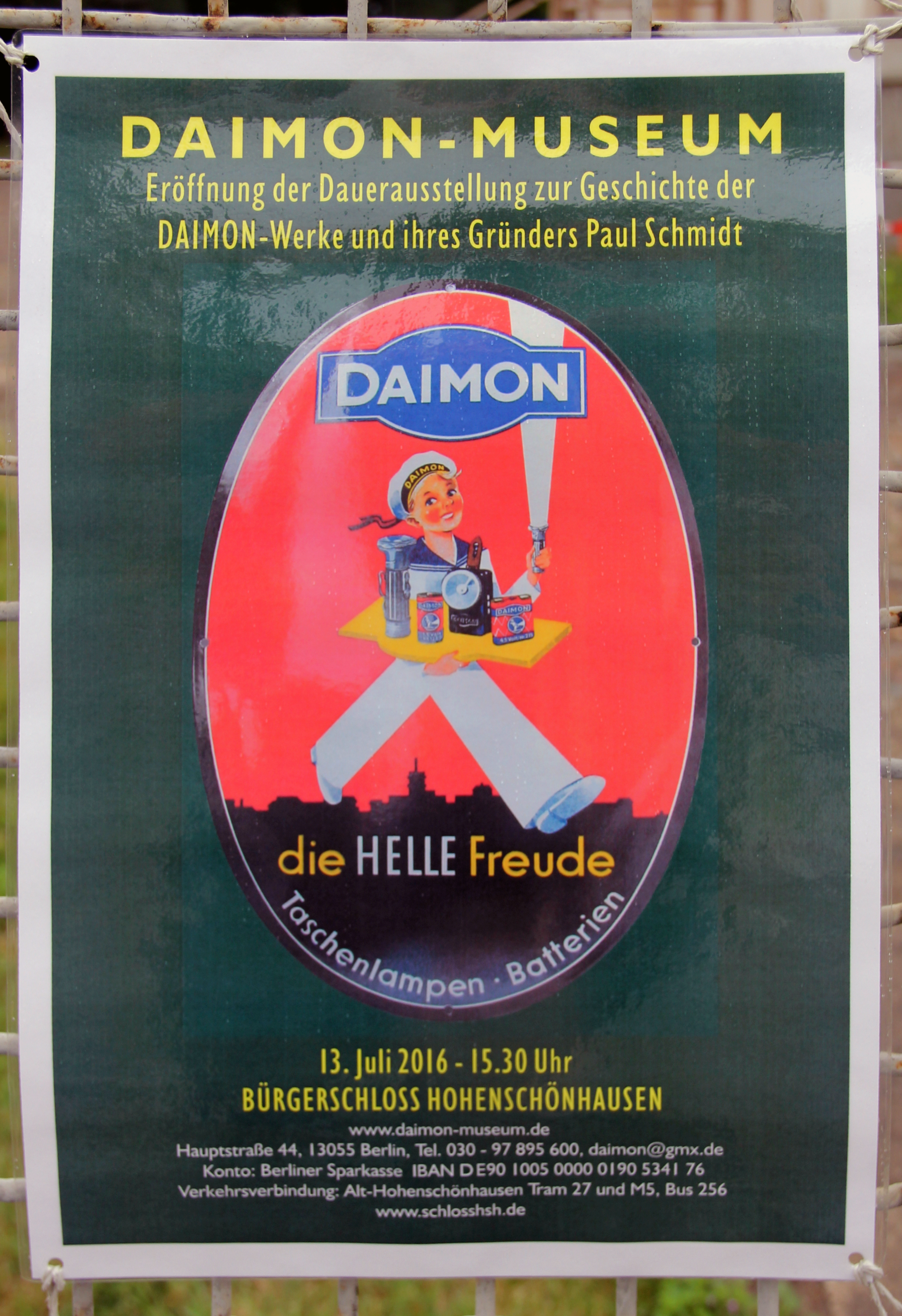 Memorial plaque, Daimon-Museum, Hauptstraße 44, Berlin-Alt-Hohenschönhausen, Deutschland